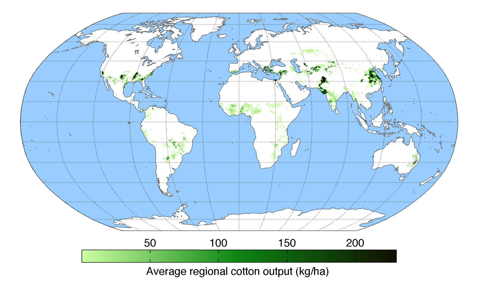 Map of cotton production (average percentage of land used for its production times average yield in each grid cell) across the world compiled by the University of Minnesota Institute on the Environment with data from: Monfreda, C., N. Ramankutty, and J.A. Foley. 2008. Farming the planet: 2. Geographic distribution of crop areas, yields, physiological types, and net primary production in the year 2000. Global Biogeochemical Cycles 22: GB1022